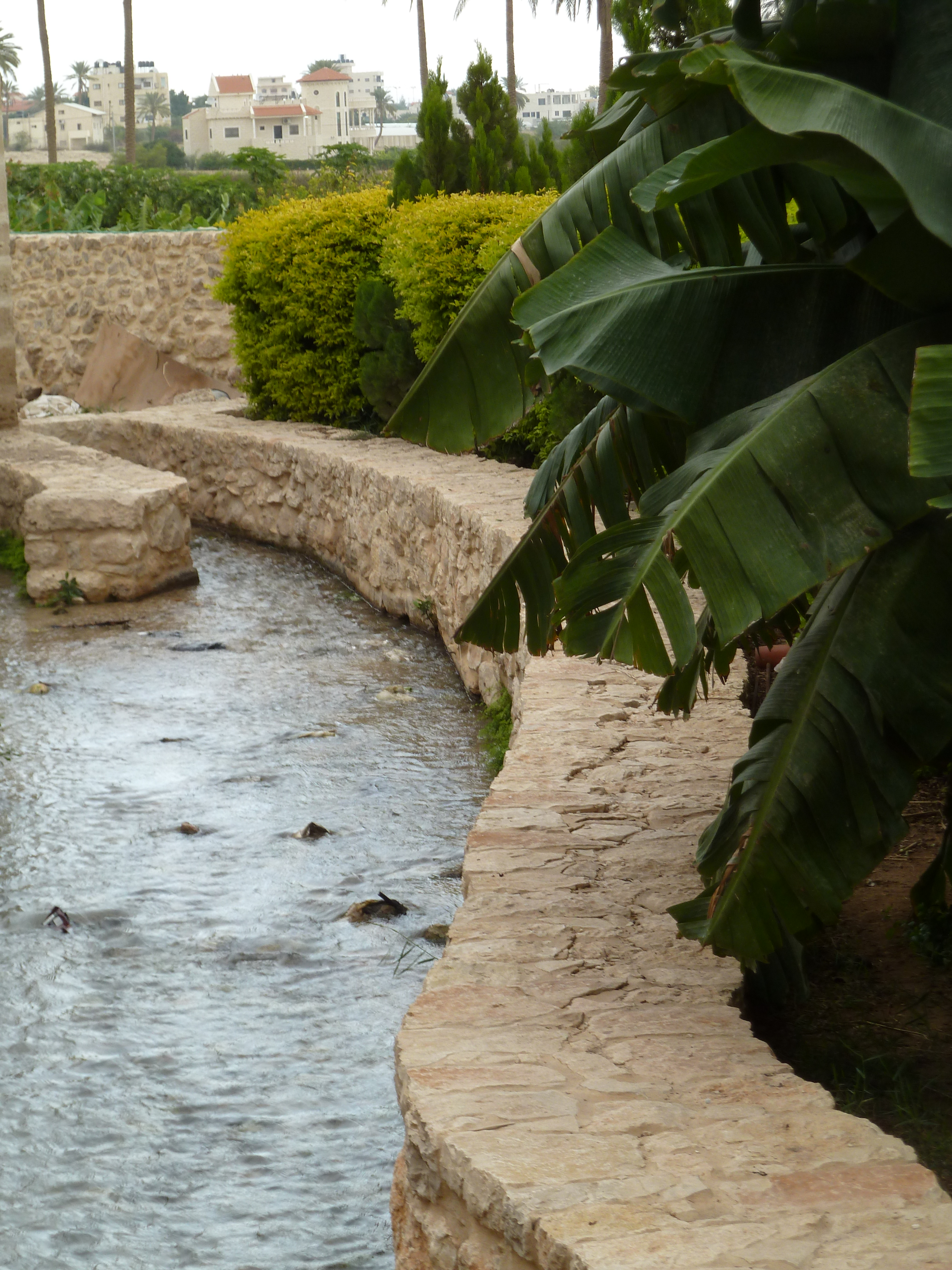 Elisha's Spring (Eliseus Spring), Ein El Sultan, Jericho